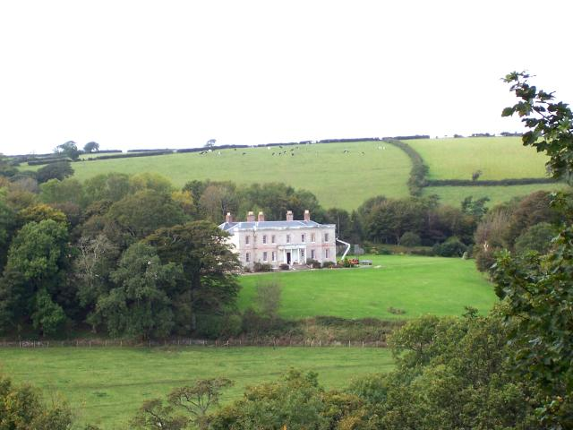 Plas Llansteffan. Plas Llansteffan, presumed to be built in the latter part of the sixteenth century.